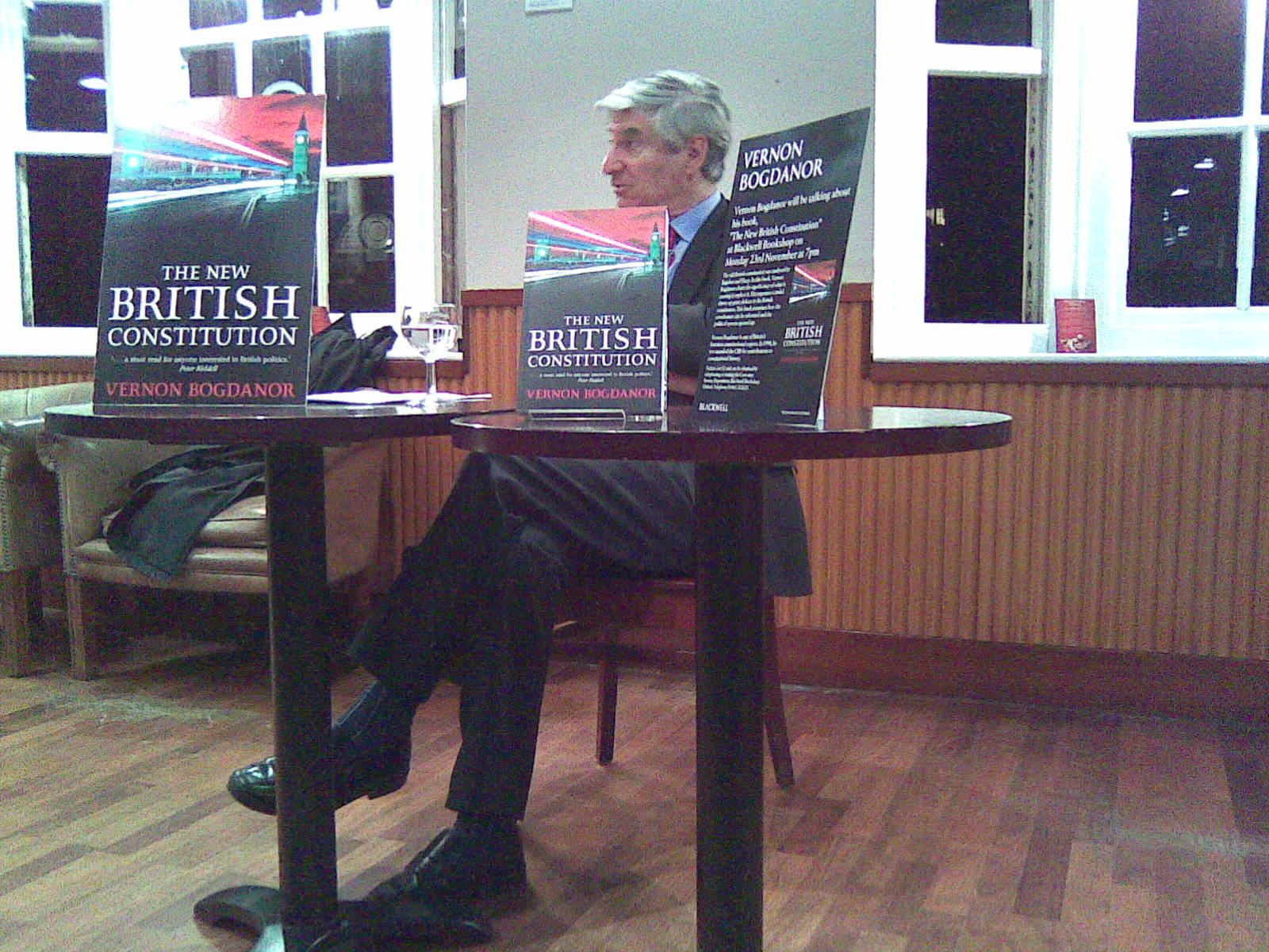 Vernon Bogdanor speaking on his book The New British Constitution in Blackwell’s bookshop, Oxford.